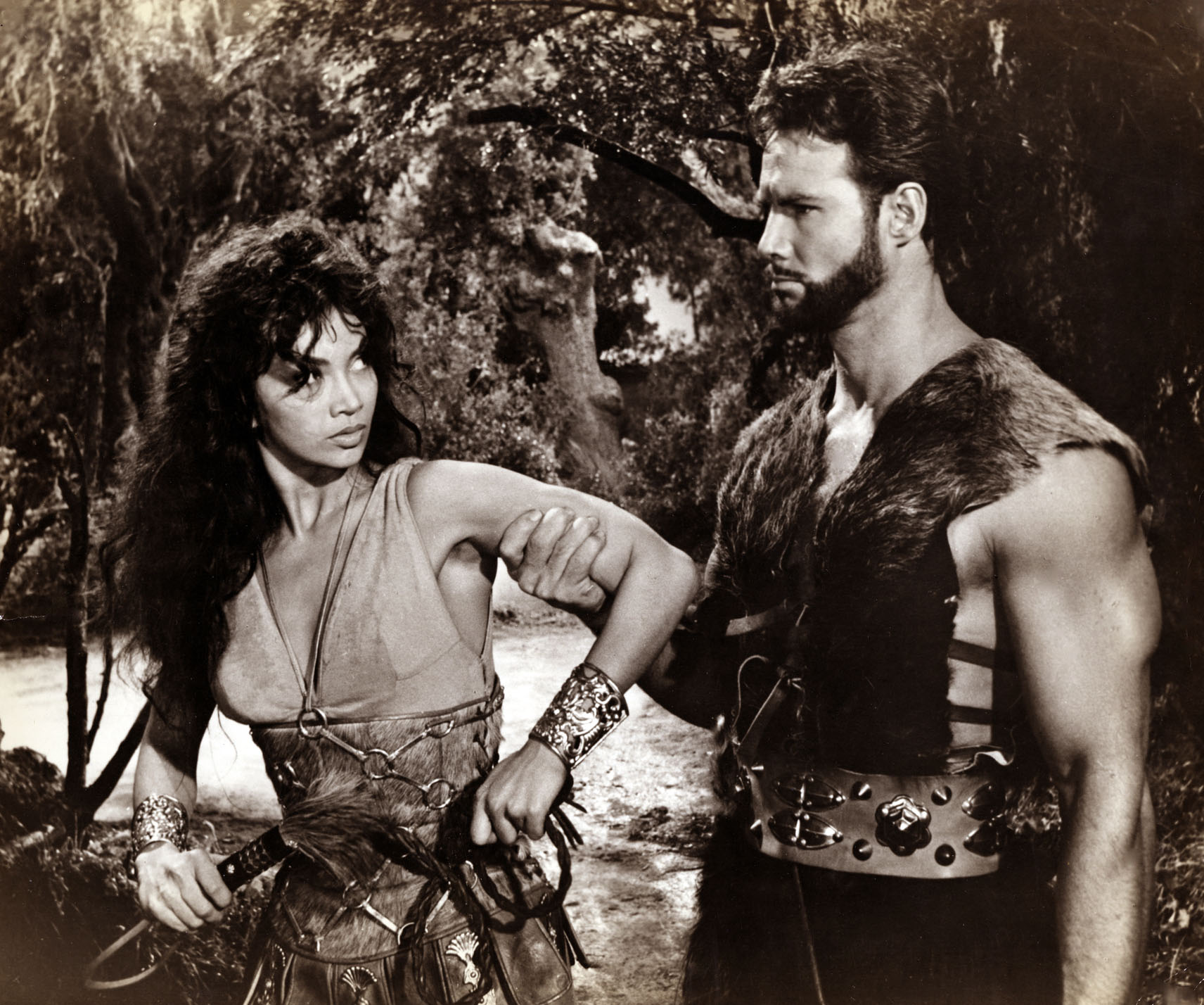 Screenshot from the film Morgan il pirata (1960)